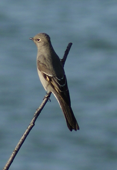 This bird was found in the autumn months in Saskatoon Saskatchewan on a high river bank with a "cliff face" overlooking the river near juniper berries and other berry bushes of the river valley ie Saskatoon, Chokecherry, High bush Cranberry, Pincherry, Buffalo Berry. Because of where it was perched on autumn trees barren of leaves, it was easy to sight from the top of the river bank looking toward the blue water of the South Saskatchewan River. There had just been an article in the newspaper, the Saskatoon Sun, discussing the migratory patterns of this bird. Compare to these pictures and notes for identification: Townsend's Solitaire (Myadestes townsendi) Mangoverde EHow [1] [2]